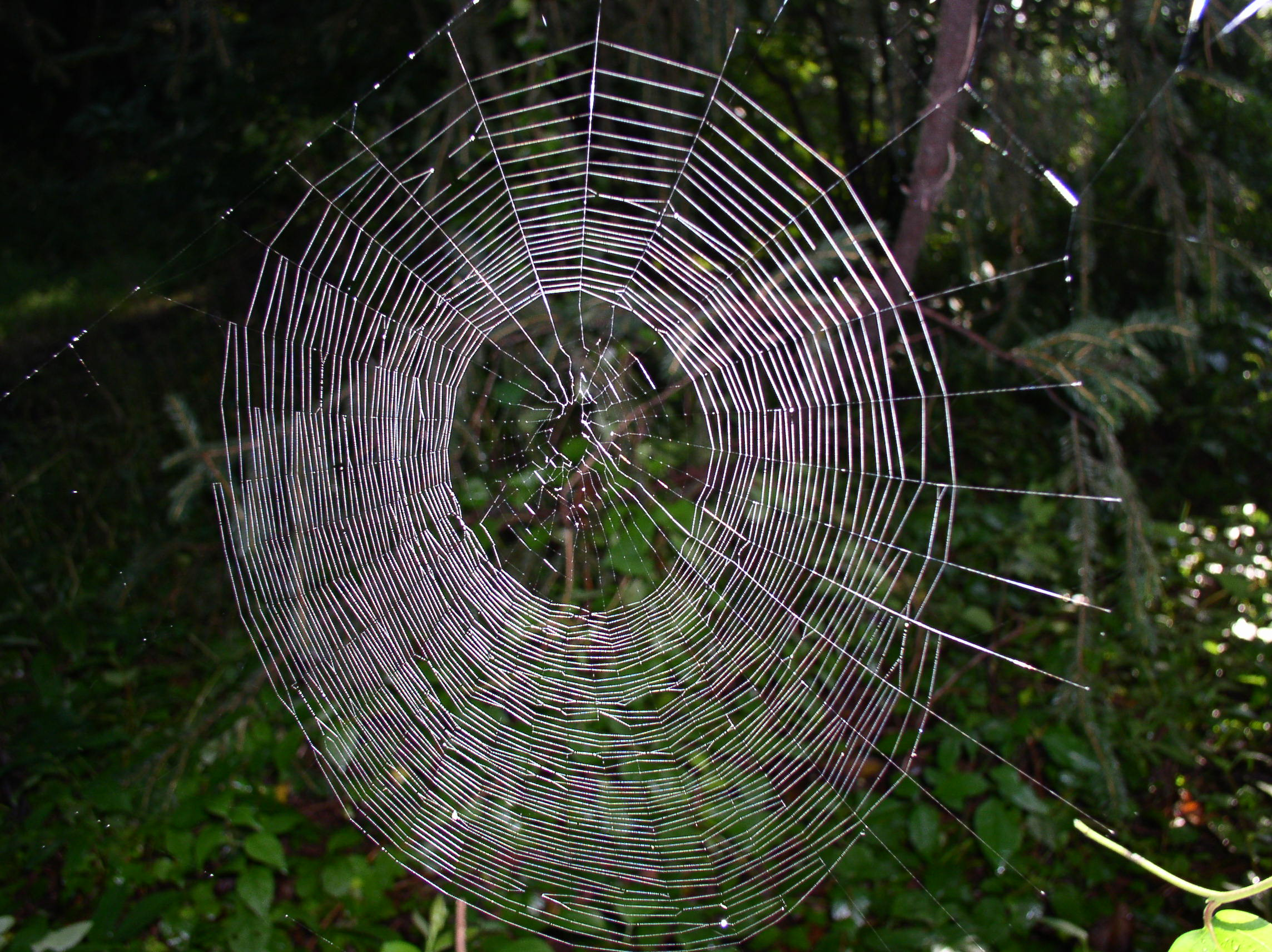 Spider web made by an orb weaver, Araneidae. Pennypack Restoration Trust, Montgomery County, Pennsylvania, USA.